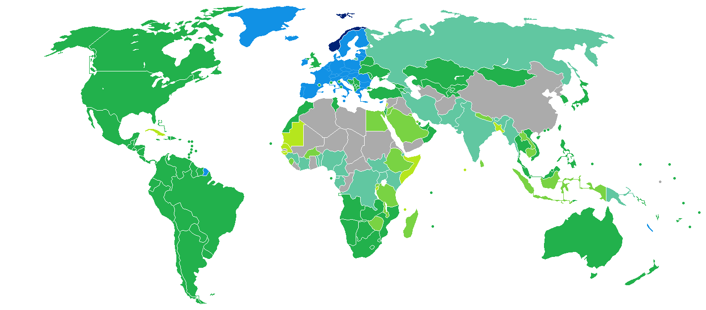 Visa requirements for Norwegian citizens Norway Freedom of movement Visa-free Visa on arrival eVisa Visa may be obtained either online or on arrival Visa required prior to arrival